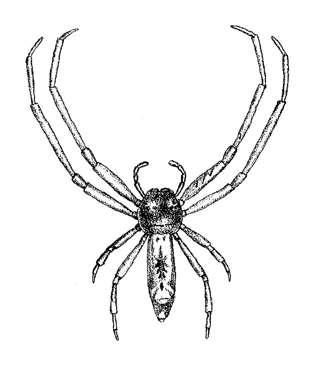 Dorsal view of female Tmarus vexillifer (=Pholcus vexillifer) from Rodrigues.